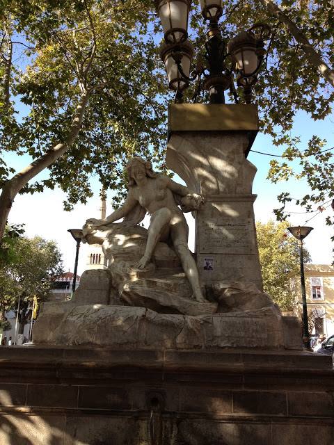 The famous monument of Sétif